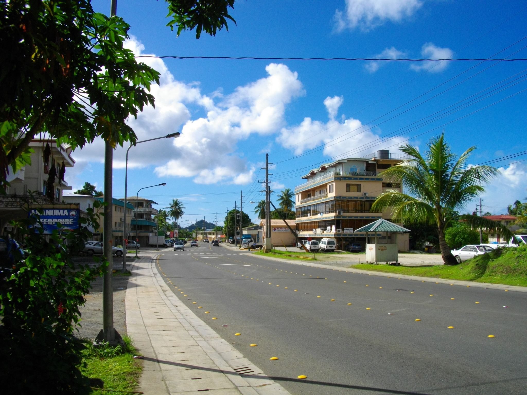 Koror downtown